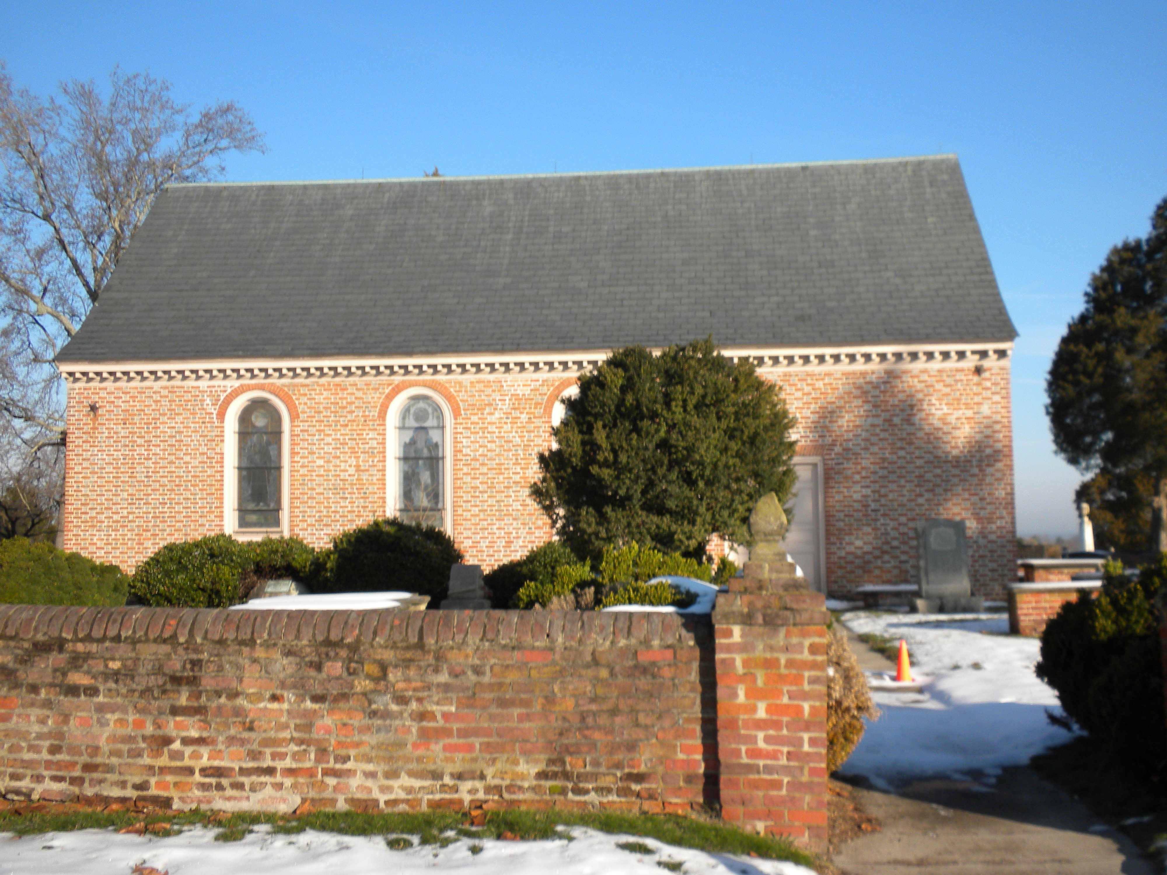 Blandford Church in Blandford Cemetery on Crater Road in Petersburg, VA. On NRHP. I donate this photo to the public domain.